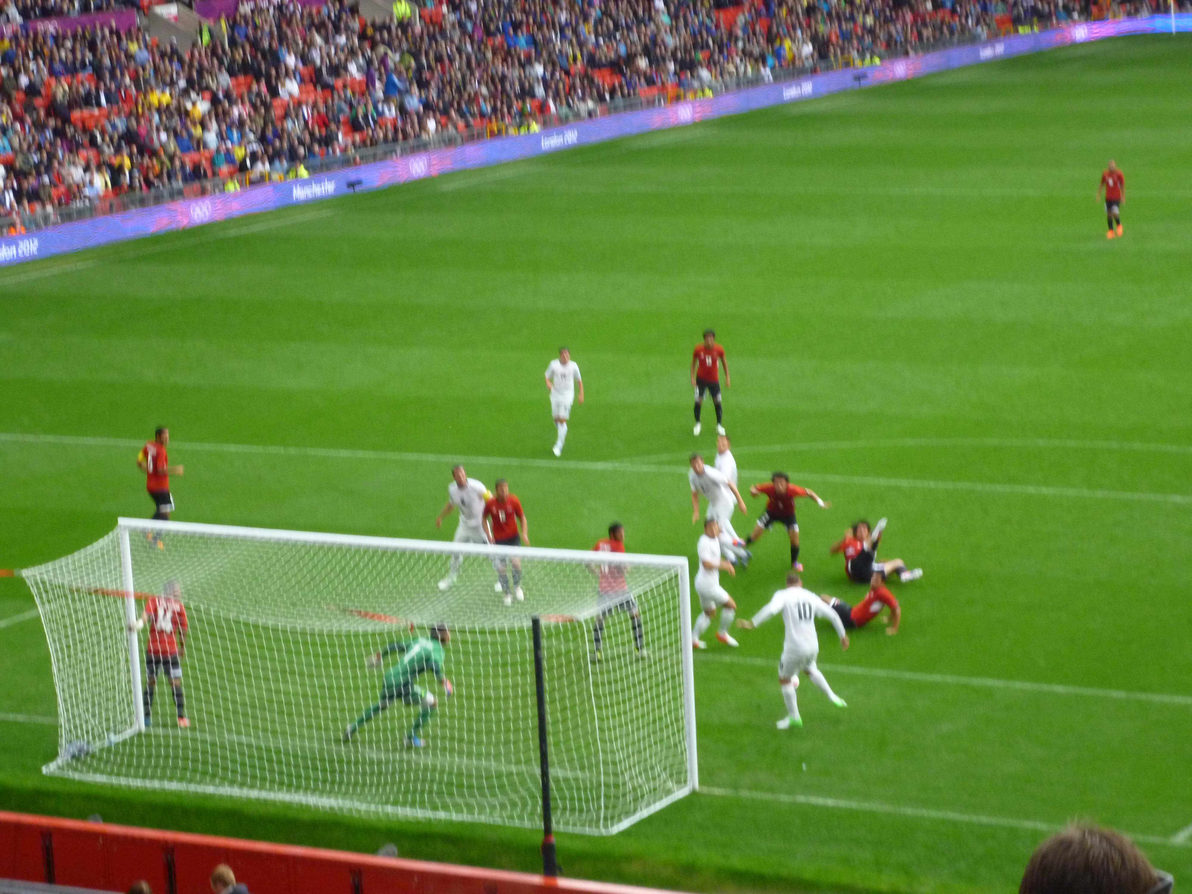 New Zealand's Chris Wood scores the opening goal in the preliminary Olympic football match between New Zealand and Egypt at Old Trafford on 29 July 2012